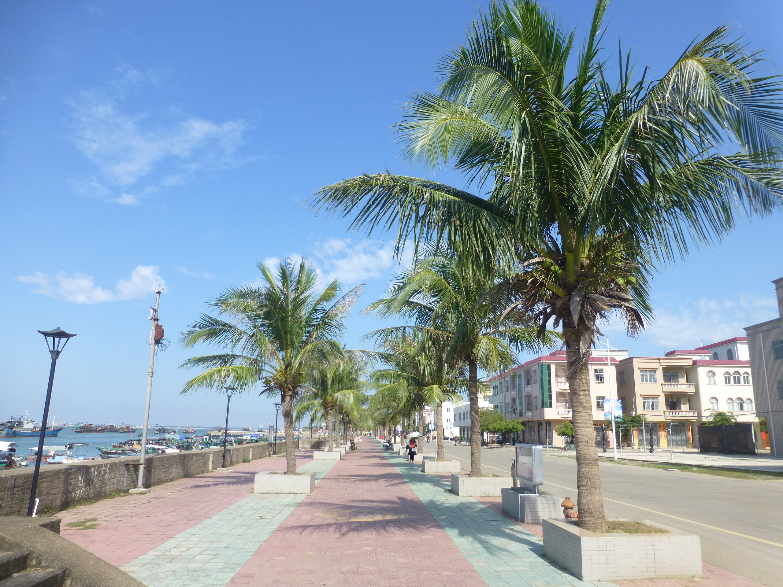 The South Harbor area of Naozhou Island.